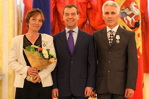 Russian President Dmitry Medvedev with Gabriel and Marina Medvedev, just both decorated with the Order of Parental Glory, June 1, 2009.